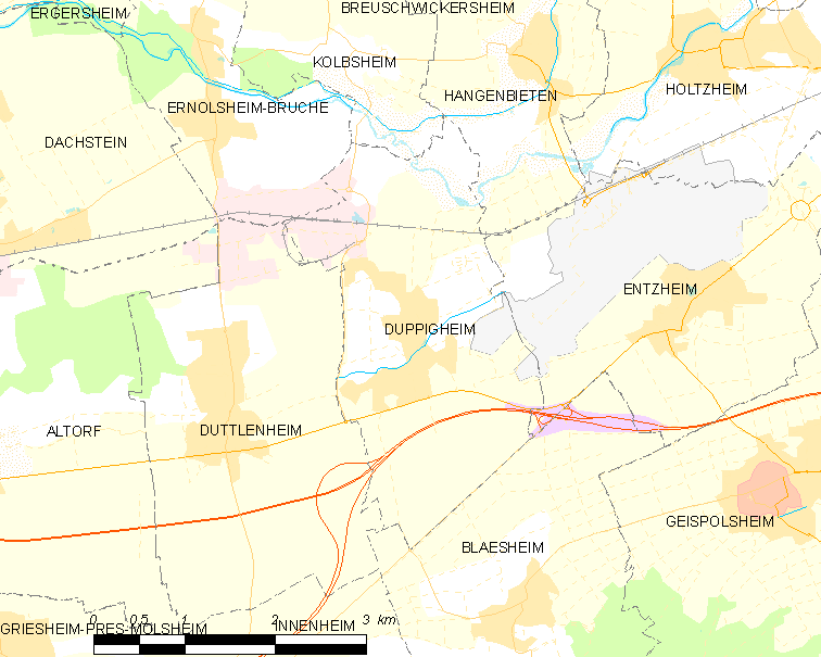 Map of French municipality